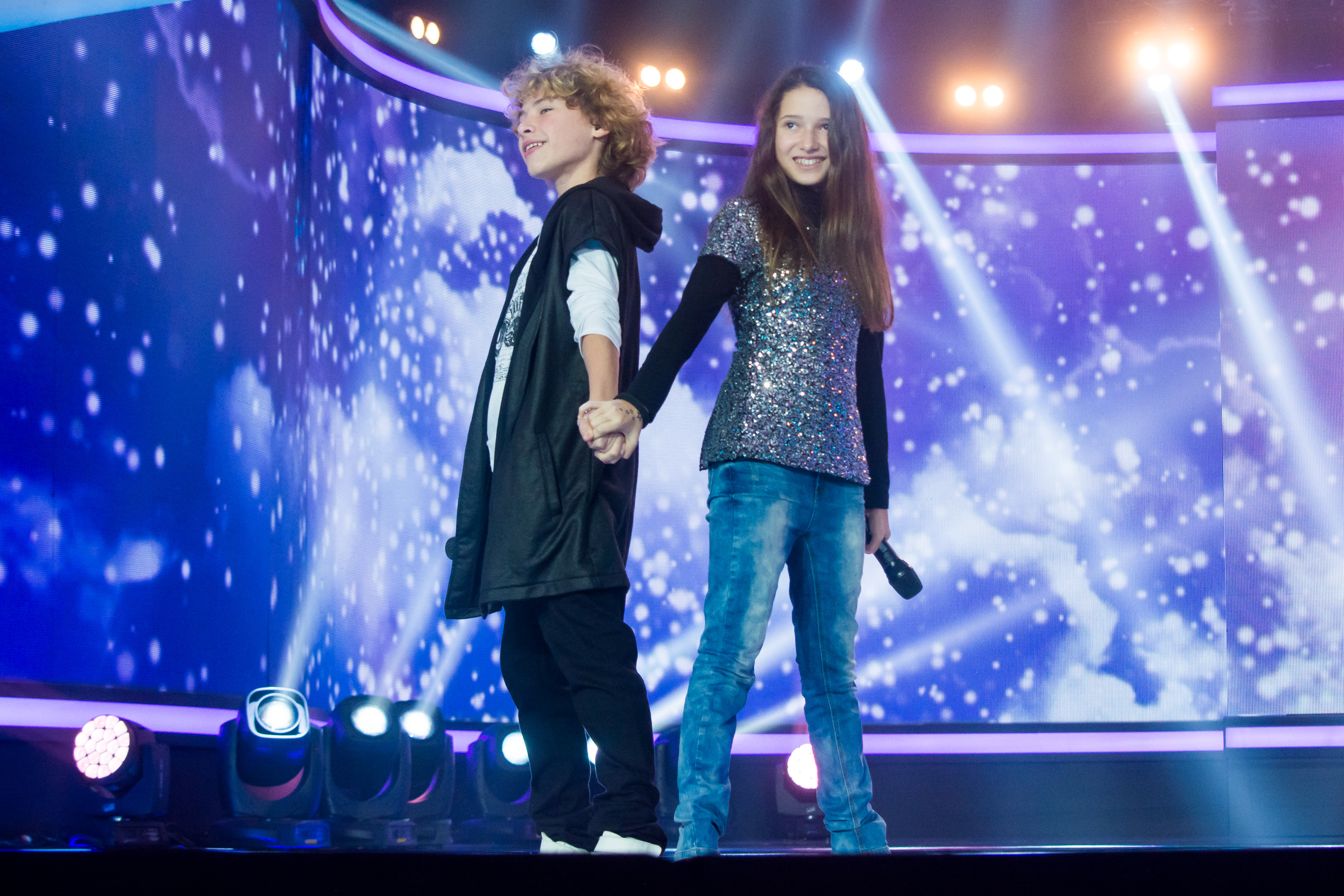 JESC 2016 participants: Shir and Tim (Israel)